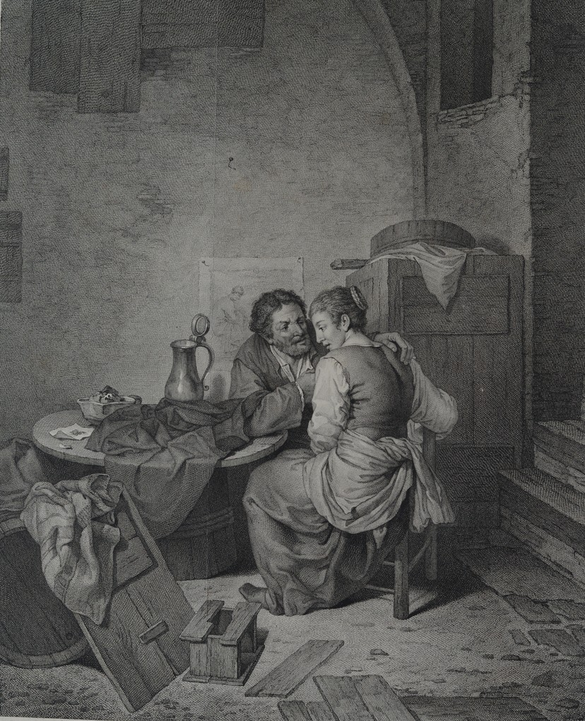 Domestic Scene